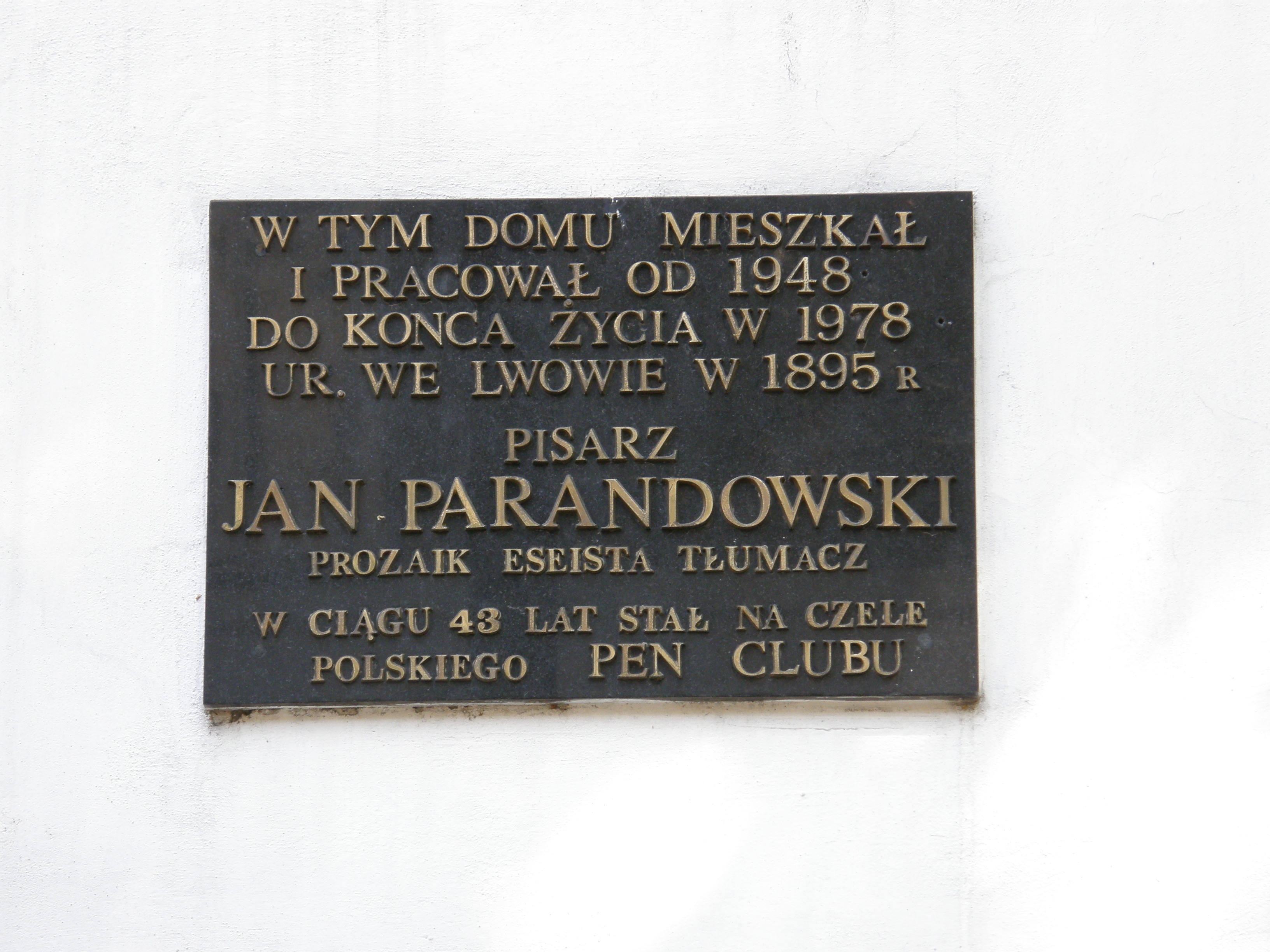 Memorial on house (S.Zimorowicza street) where Jan Parandowski lived for many years